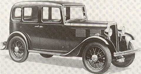 1933 Standard Little Nine mark iv